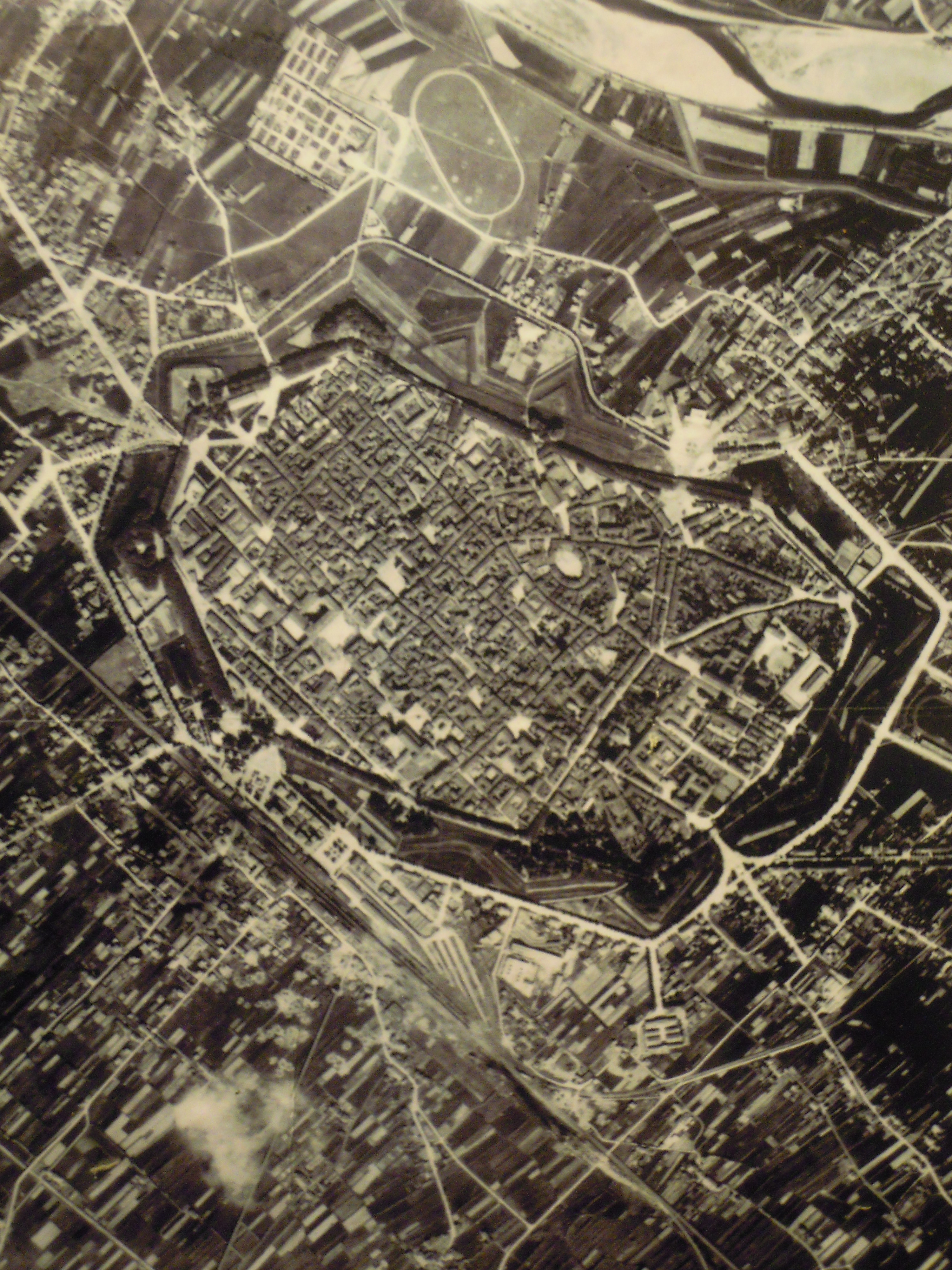 Ricognizione Lucca